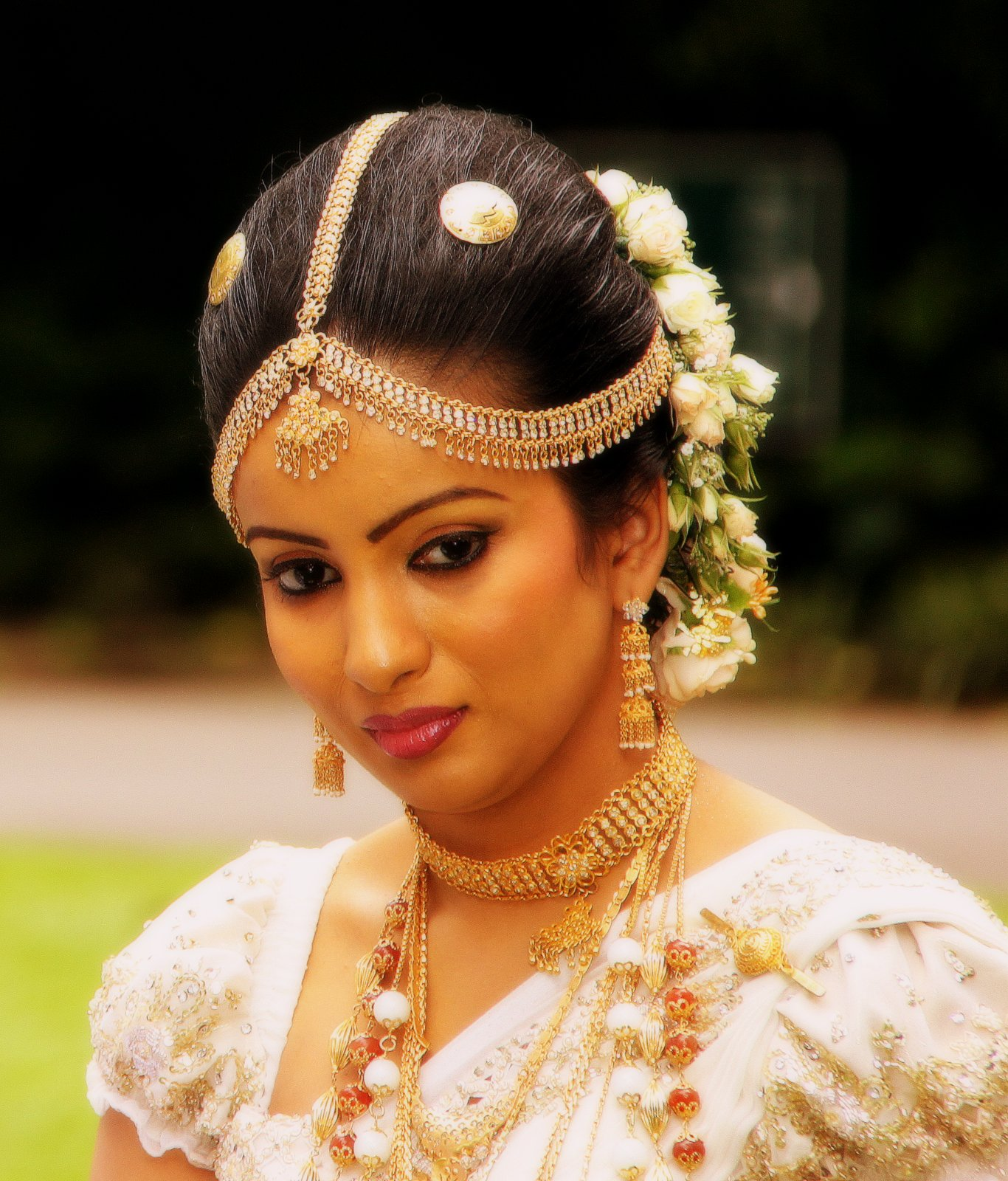 A bride in Sri Lanka specially in Kandy